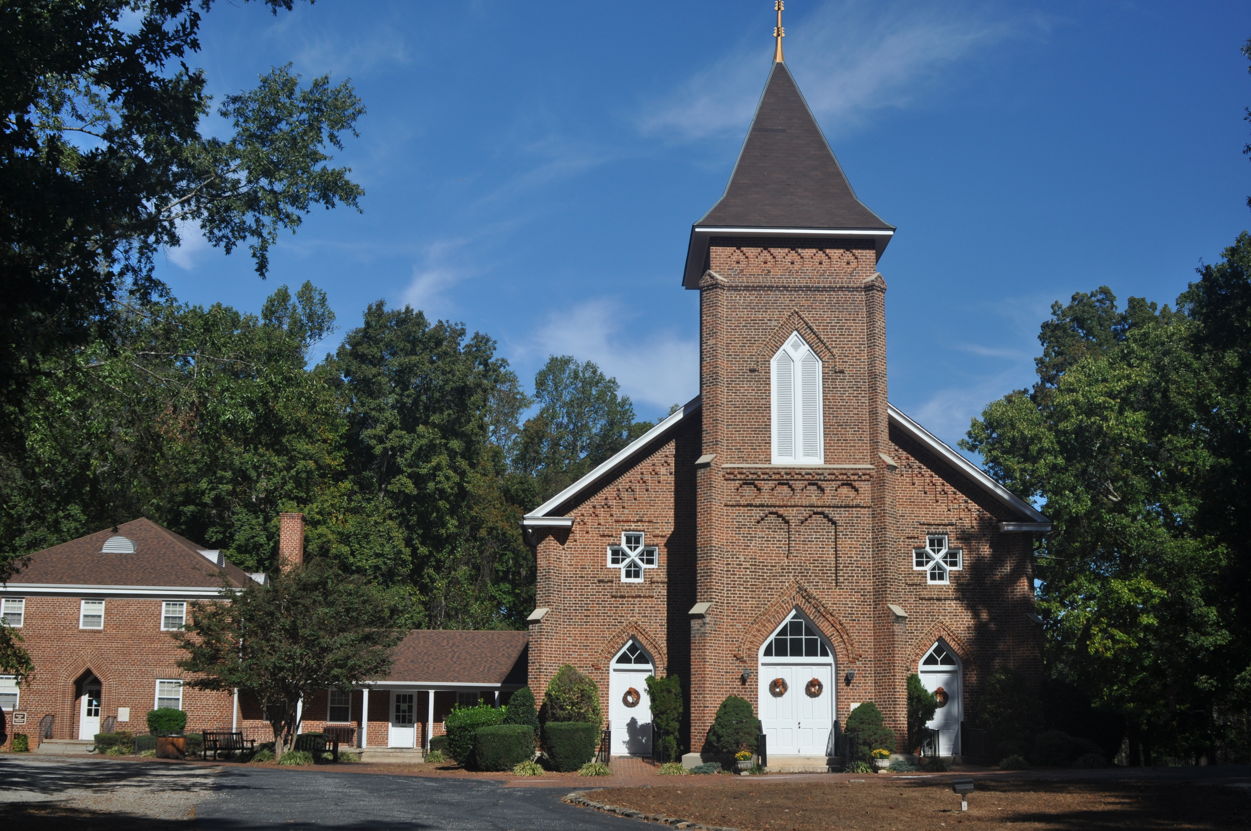 Picture taken on October 17, 2017 of Thyatira Presbyterian Church buildings